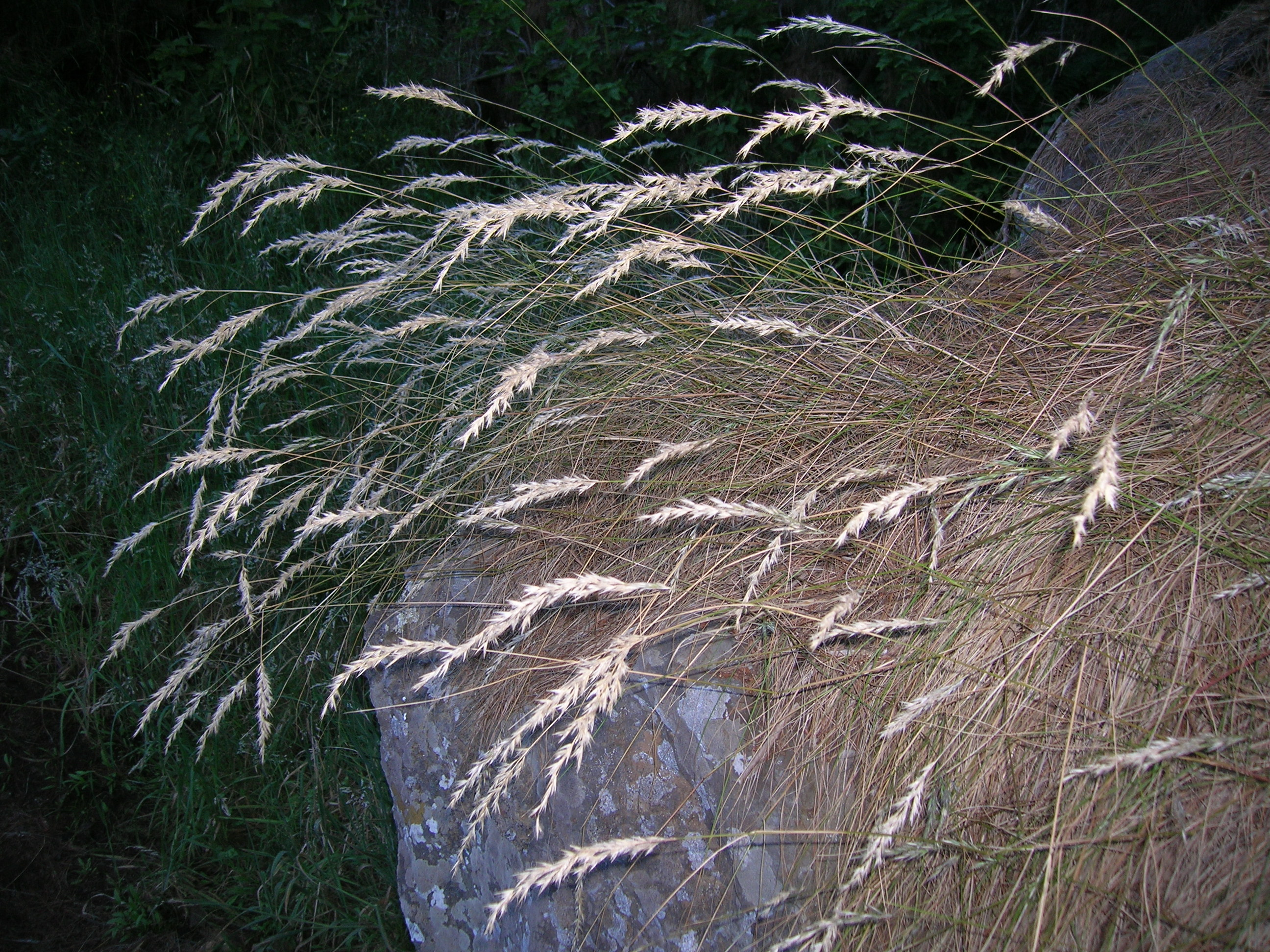 Rytidosperma pilosum (habit). Location: Maui, Wiakoa Loop Trail Polipoli